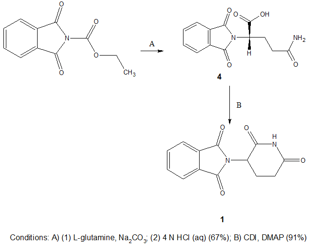 A newer easier way to synthesize Thalidomide